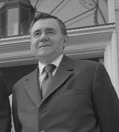 Conference on Security and Cooperation in Europe, showing Russian Andrei Gromyko. Public domain according to the Ford Library Museum. (Archive)